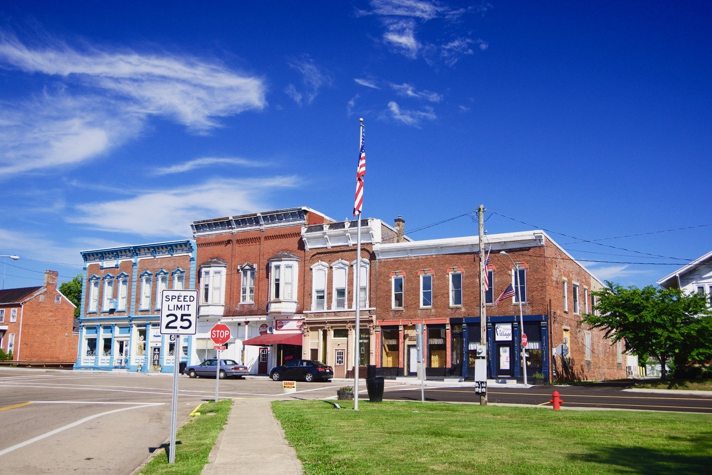 Businesses at the intersection of West Street (State Route 28) and Main Street in New Vienna, Ohio, United States.